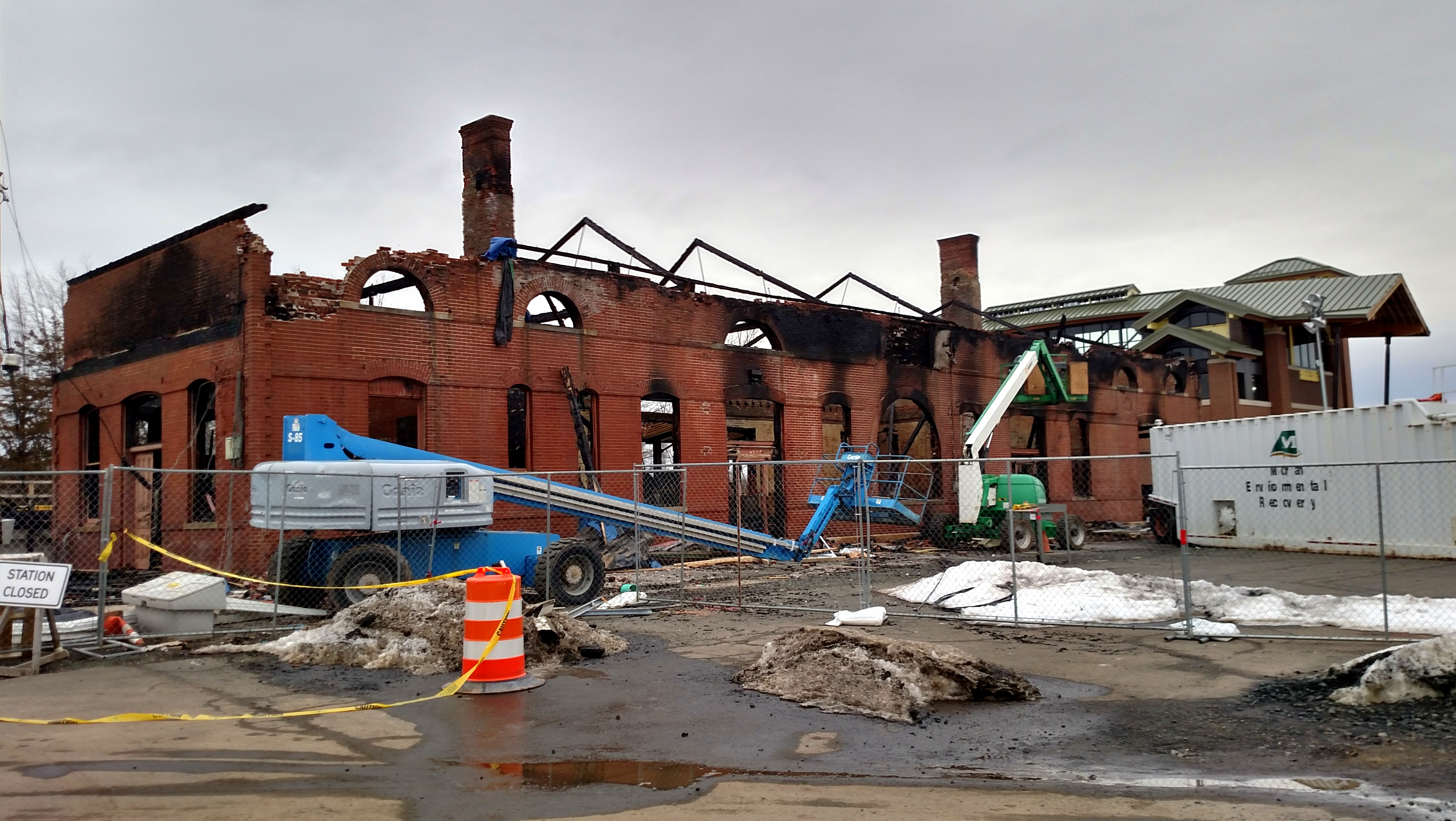 The burned remains of Berlin station in December 2016, with the under-construction pedestrian bridge at right